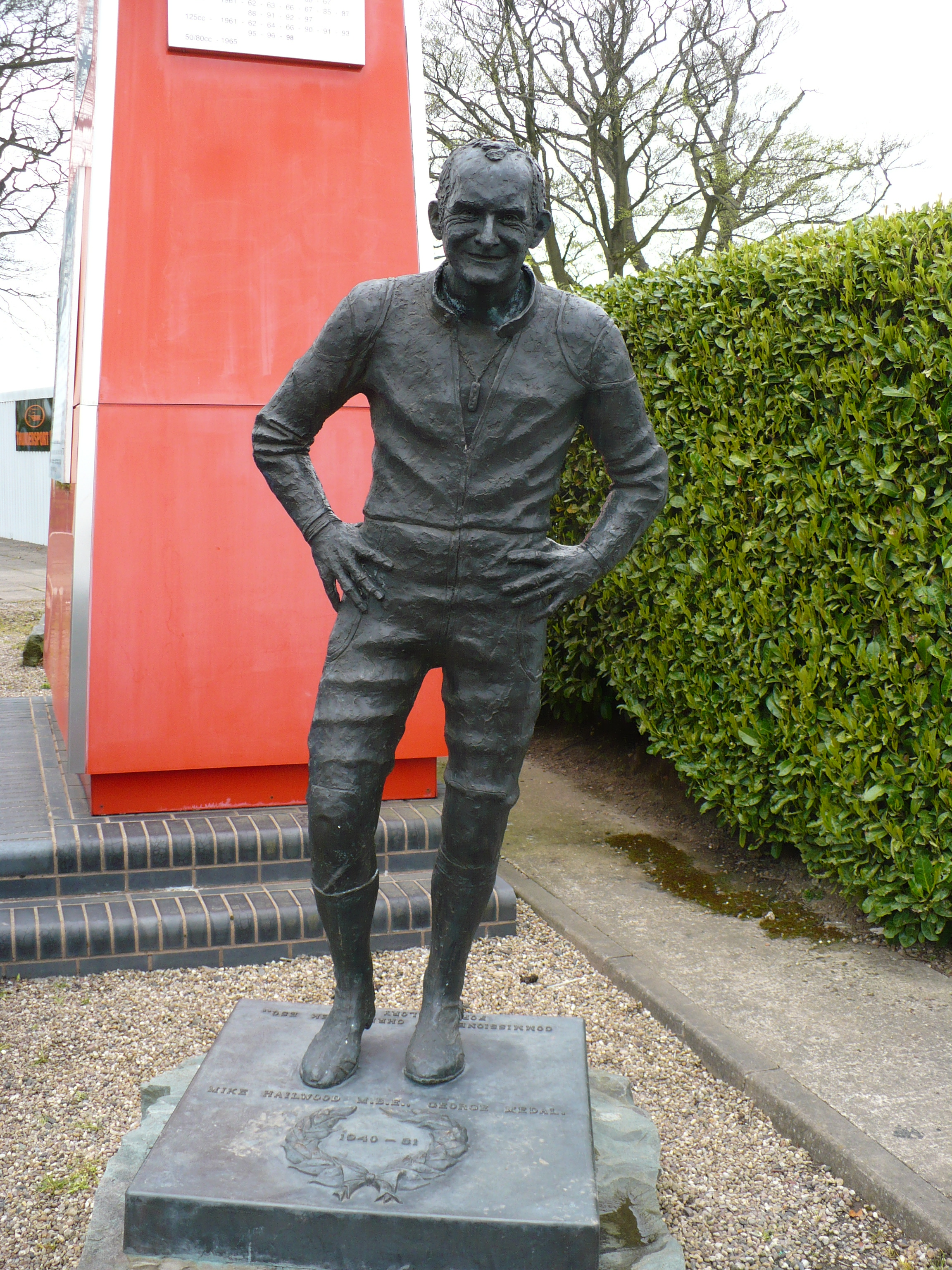 Statue of Mike Hailwood at Mallory Park.